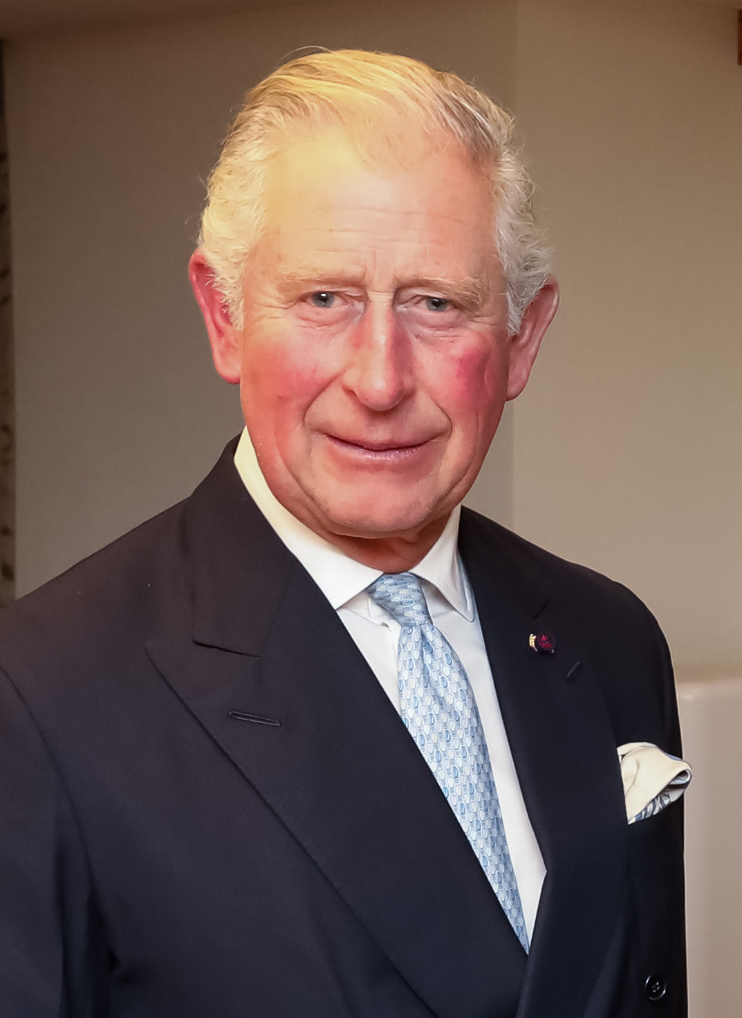 (Tóquio - Japão, 23/10/2019) Reunião Bilateral com o Príncipe Charles. Foto: José Dias/PR